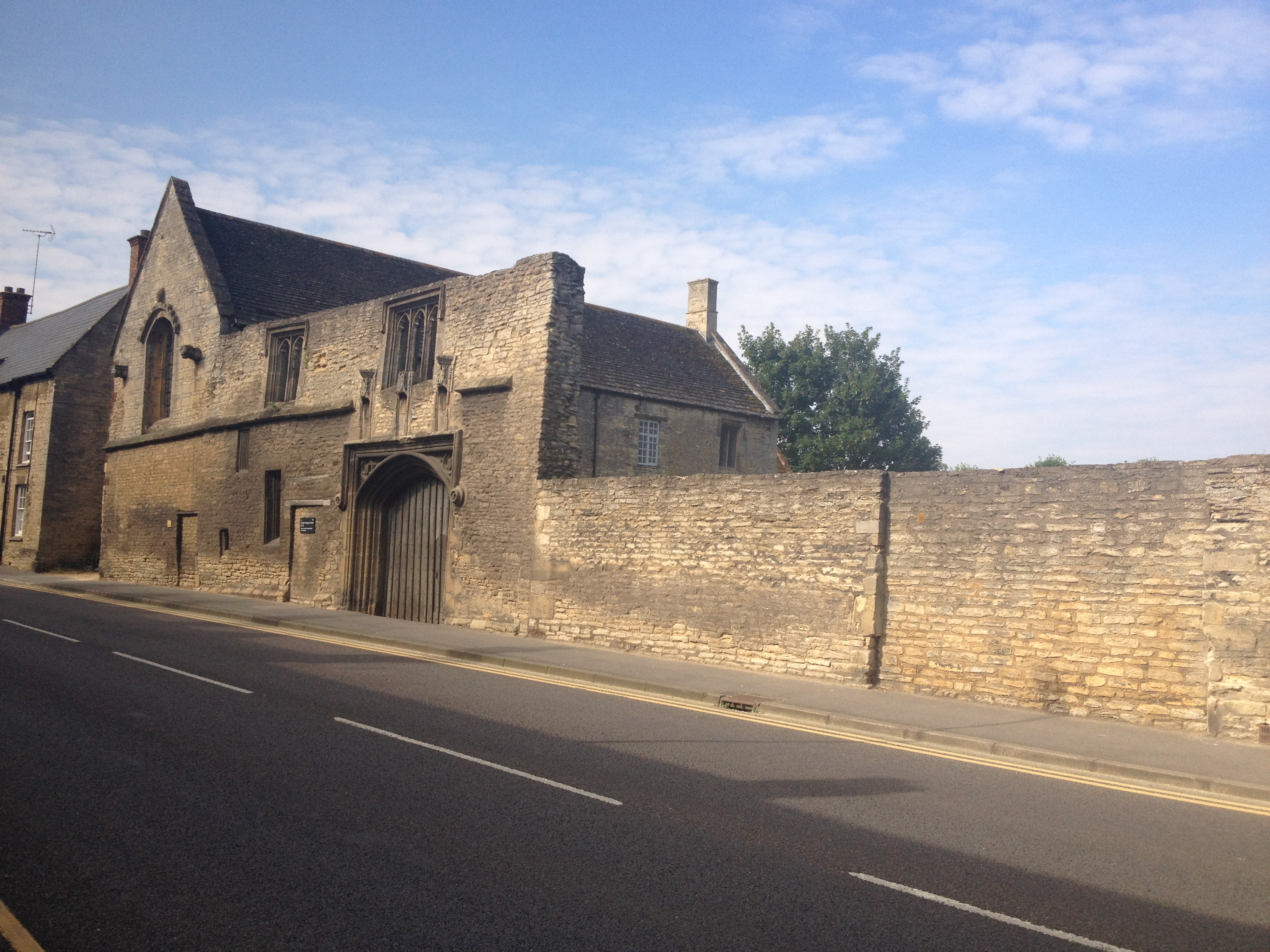 South range and remains of the east range of Chichele College, Higham Ferrers, Northamptonshire, seen from the northeast from College Street